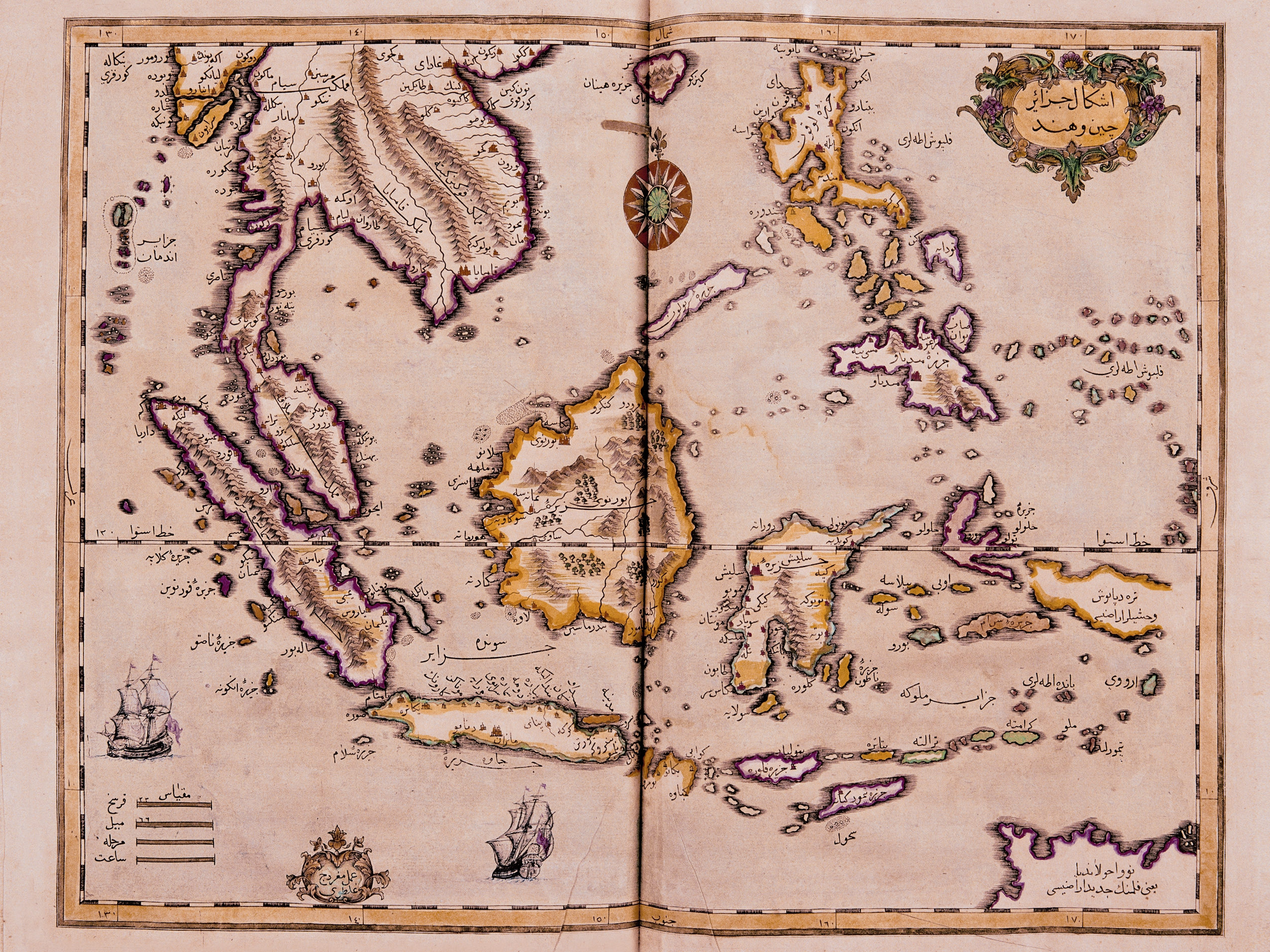 This map of the Indian Ocean and the China Sea was engraved in 1728 by the Hungarian-born Ottoman cartographer and publisher Ibrahim Müteferrika; it is one of a series that illustrated Kâtib Çelebi’s Cihannuma (Universal Geography), the first printed book of maps and drawings to appear in the Islamic world. CAMBRIDGE UNIVERSITY LIBRARY